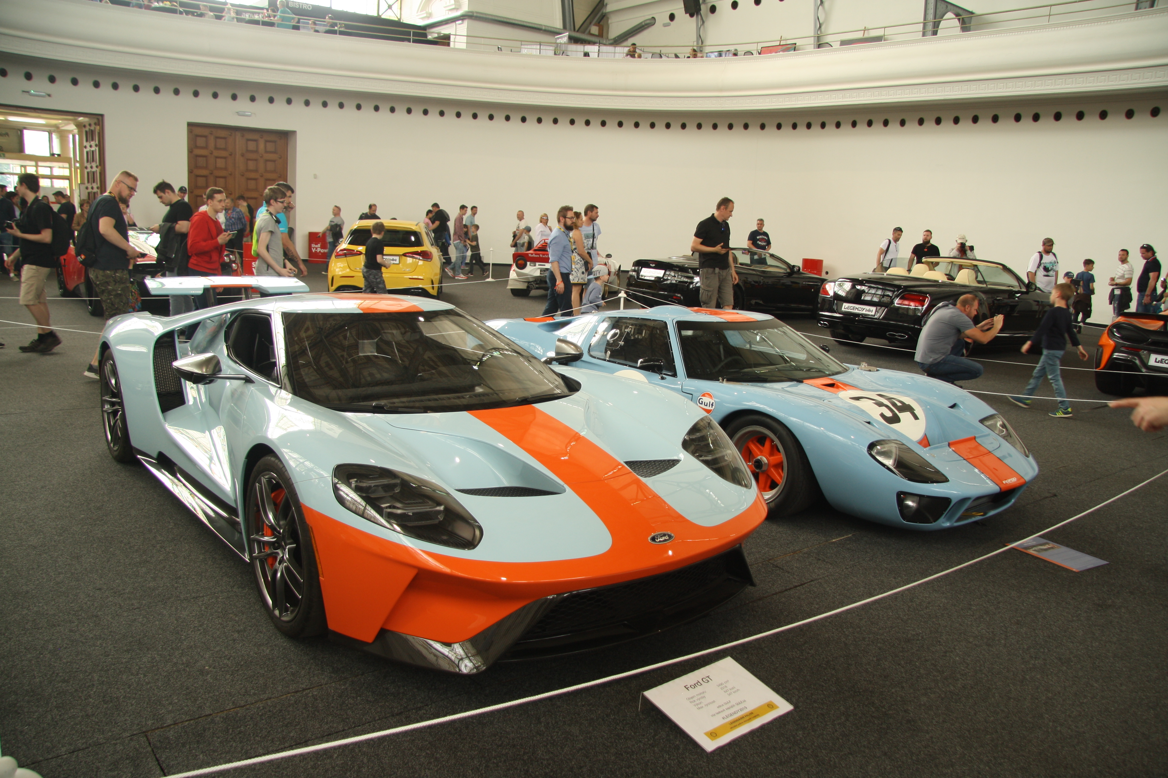 Ford GT 2018 and Ford GT 1968 at Legendy 2019 in Prague.